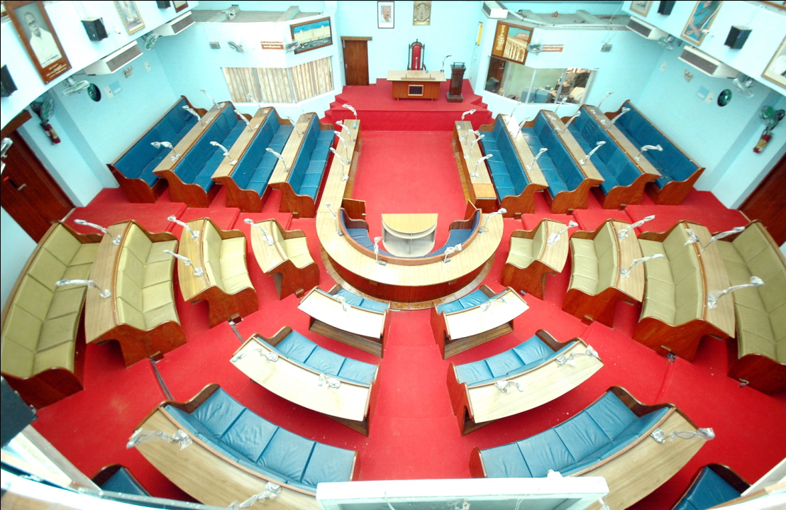 Corporation Hall, Madurai